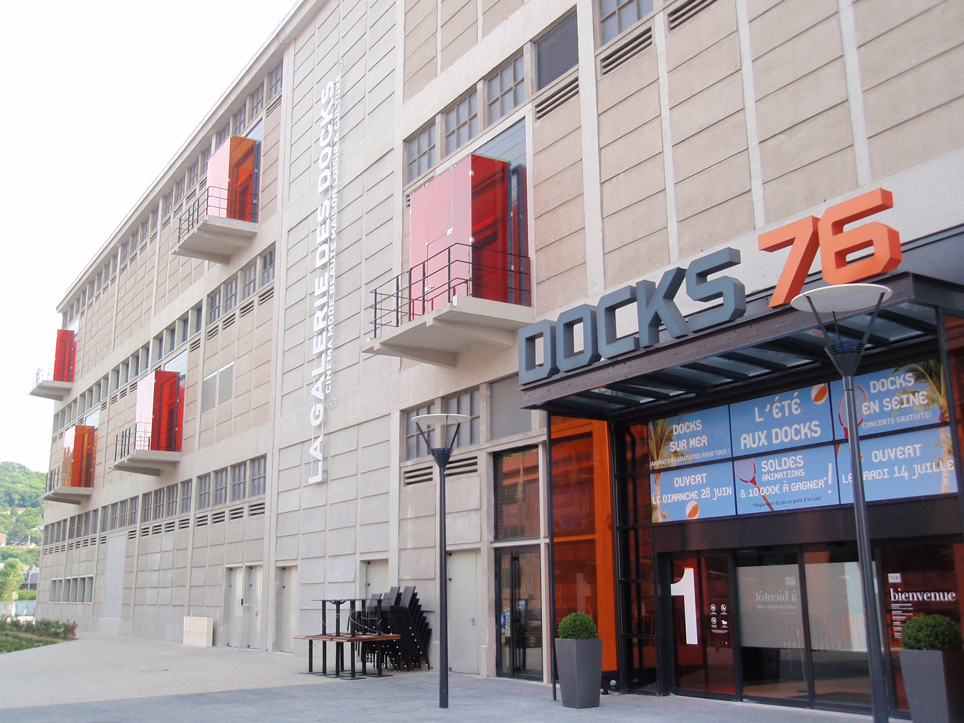 Shopping Mall in Rouen "Docks 76", based on former portuar warehouses.